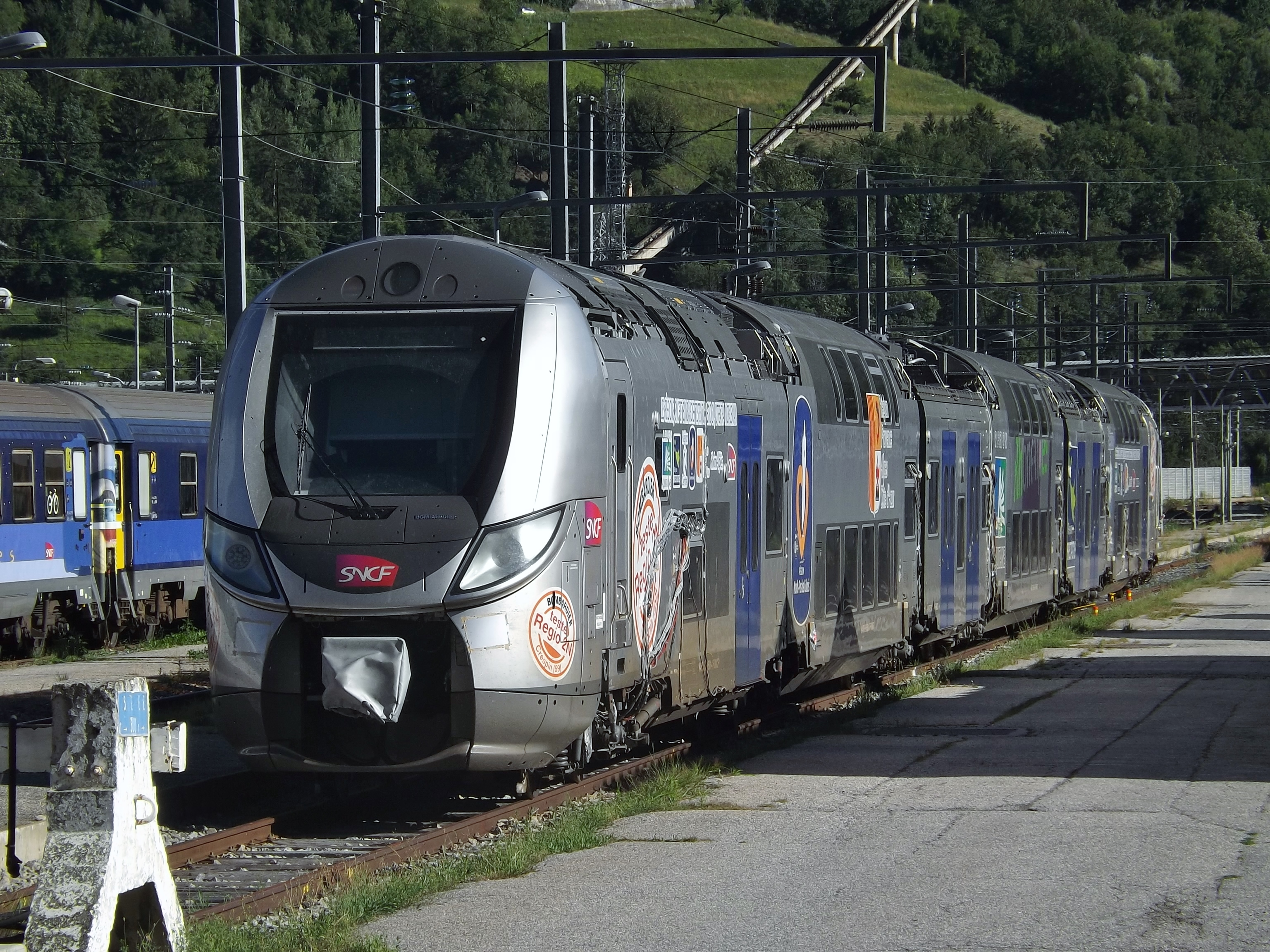 Sight of the Régio2N train in the city of Bourg-Saint-Maurice railway station (Savoie, France), during the tests period in 2013.